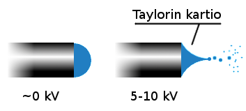 Taylor cone formation due to voltage in ESI ionization technique.